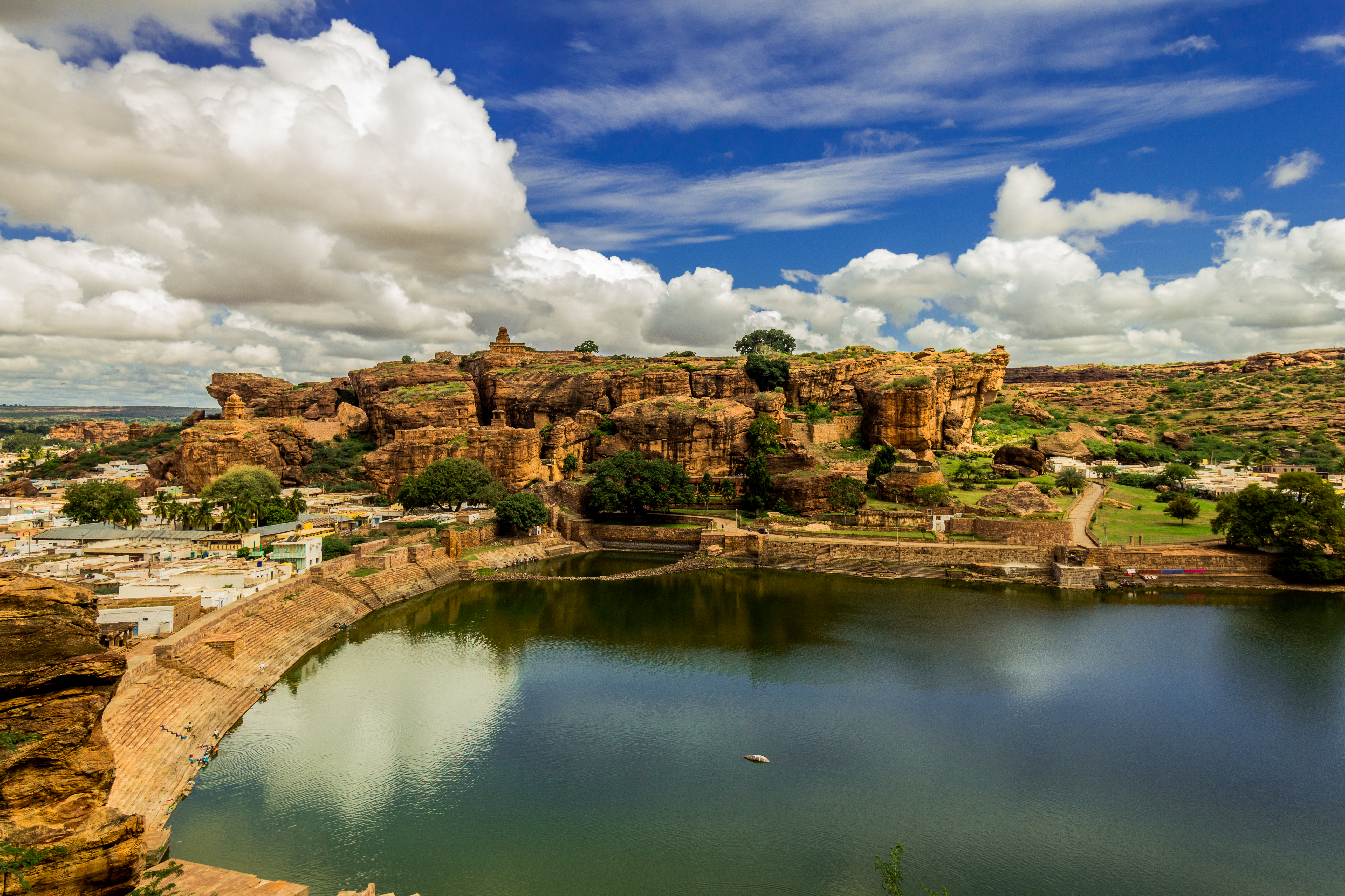 Ancient Temples (Upper & Lower Shivalaya) and fortification. Walls, Gates and Dam forming the western boundary of Lake at Badami. Period : 6-8th century, Chalukya